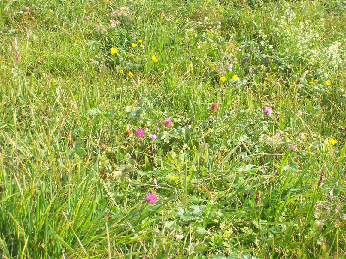 plants near Laterns, Vorarlberg, Austria.